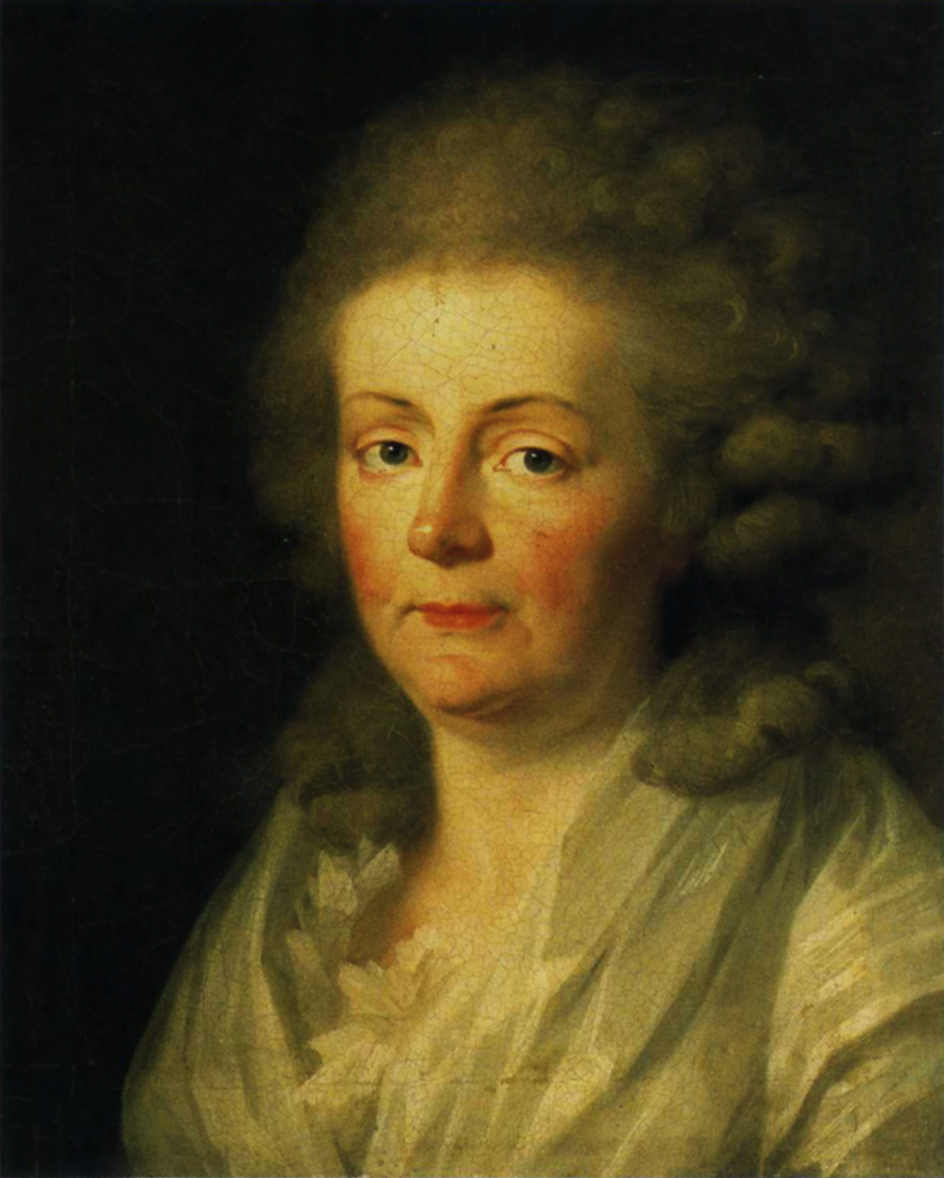 Portrait of Anna Amalia of Brunswick-Wolfenbüttel (1739-1807), Duchess of Saxe-Weimar and Eisenach